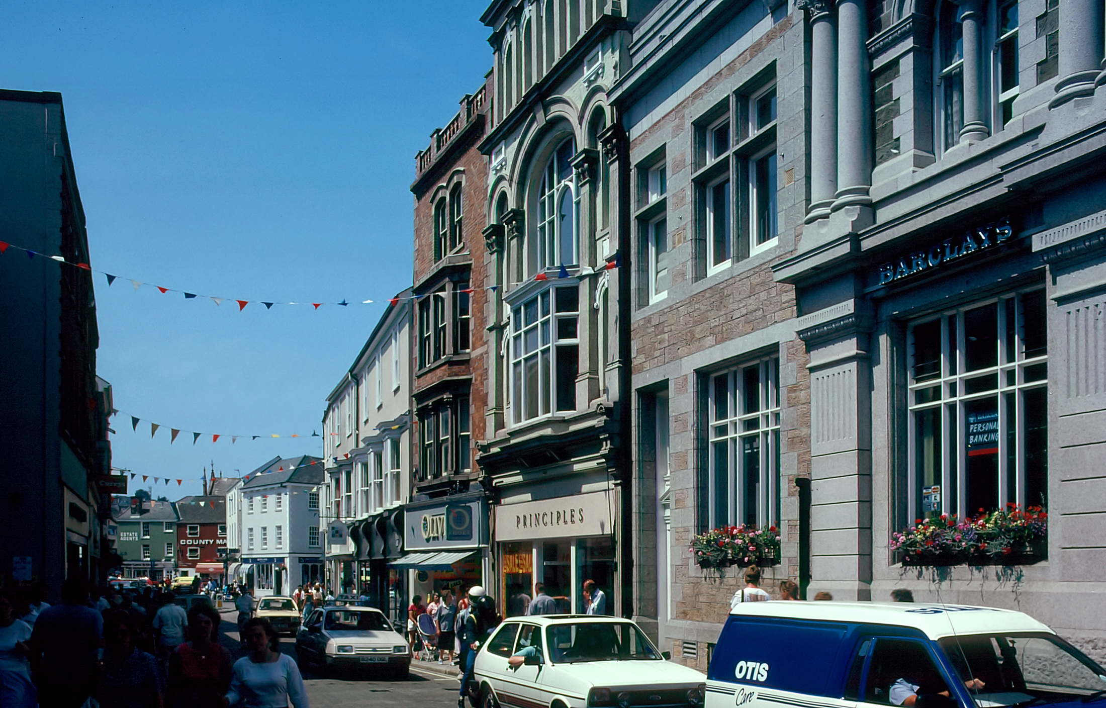 Summer view looking west along St Nicholas Street, Truro, Cornwall, UK